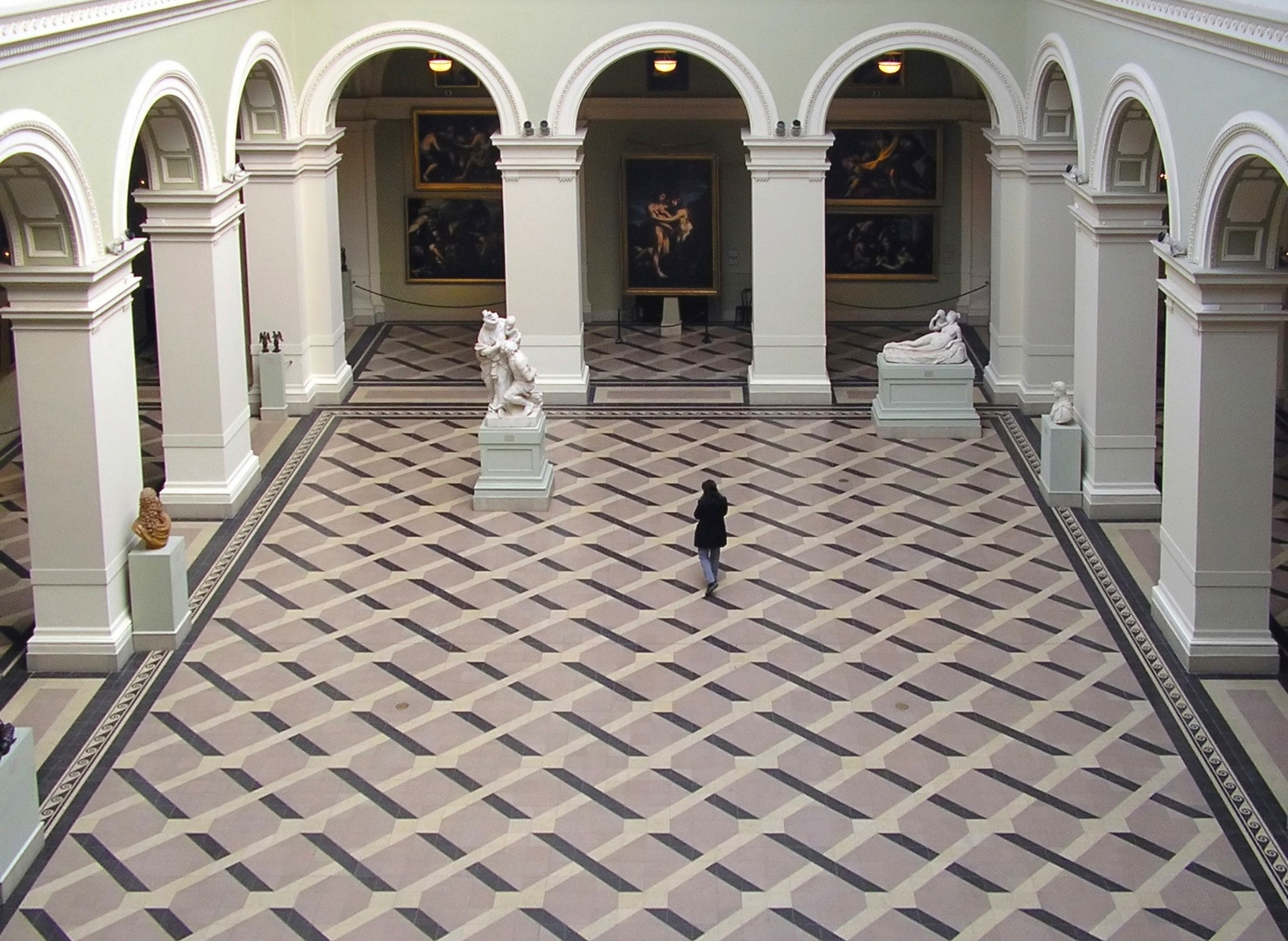 Museum of Fine Arts in Budapest, Hungary